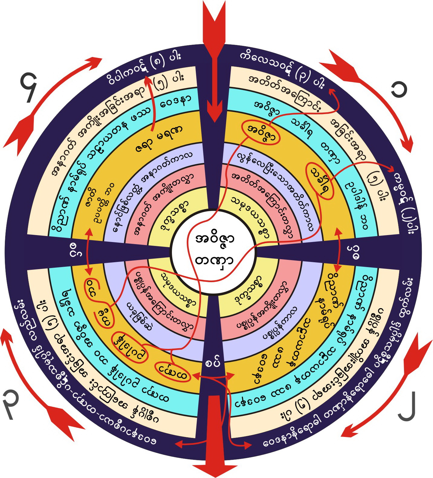 Paticcasamuppada in Burmese language and also mixed with Pali language since original Burmese language with already mixed with Pali words. Burmese language is used in Myanmar ( Burma)